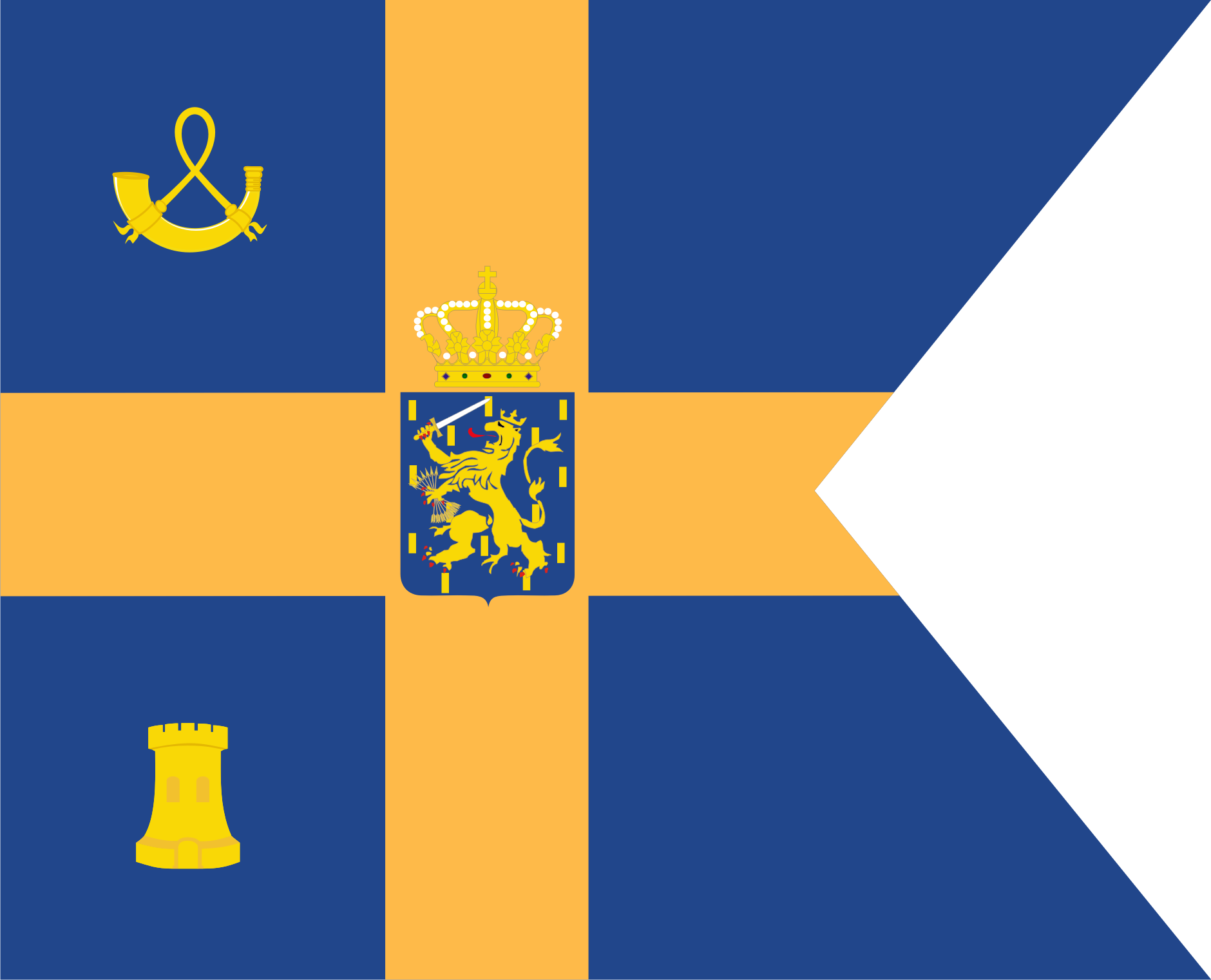 Standard of Queen Máxima of the Netherlands